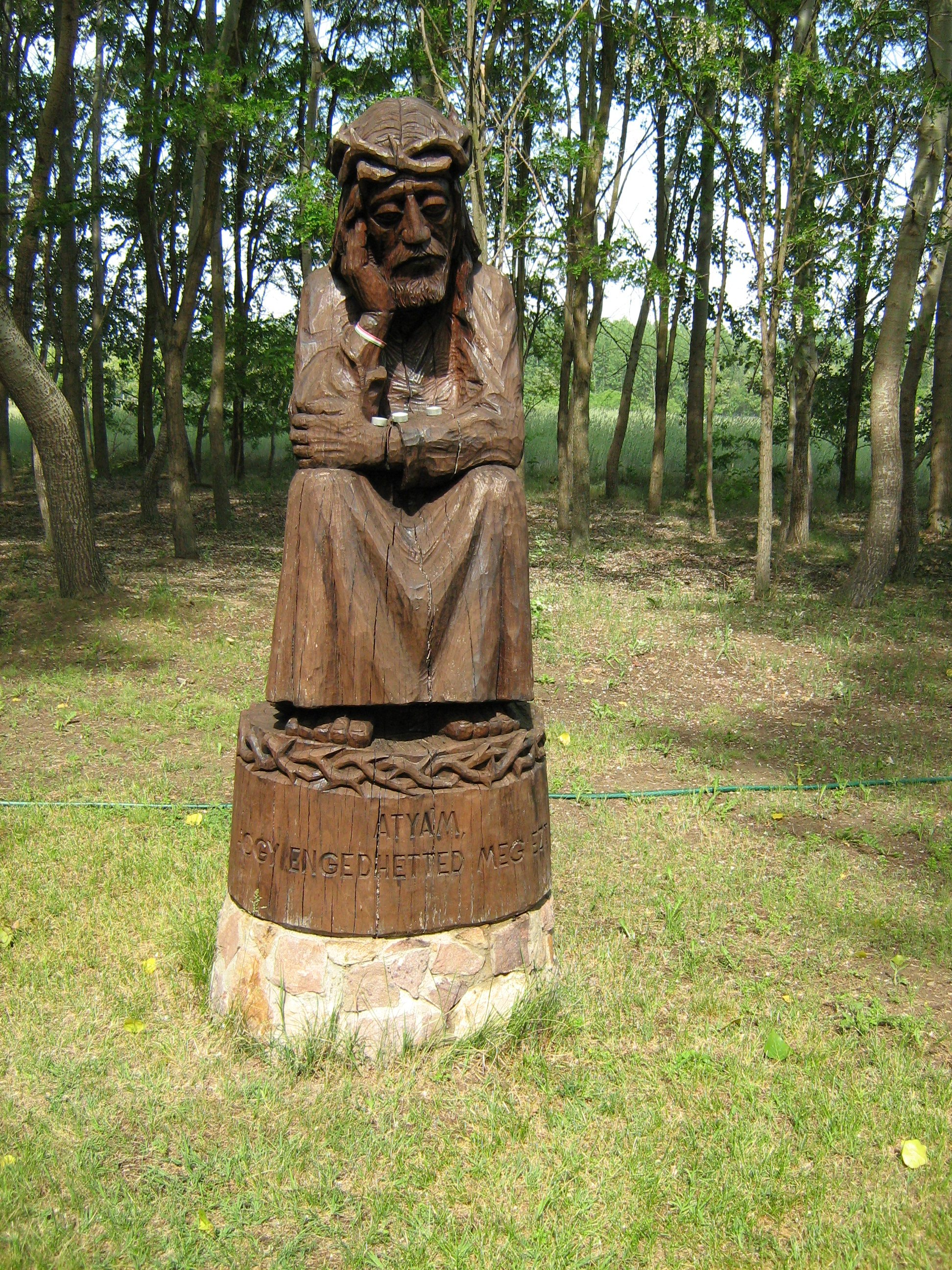 Statue of Christ, Kiskunmajsa, Hungary